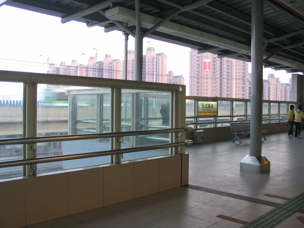 長江南路站-3號線月台 Line 3 Platform of Changjiang Road (S) Station